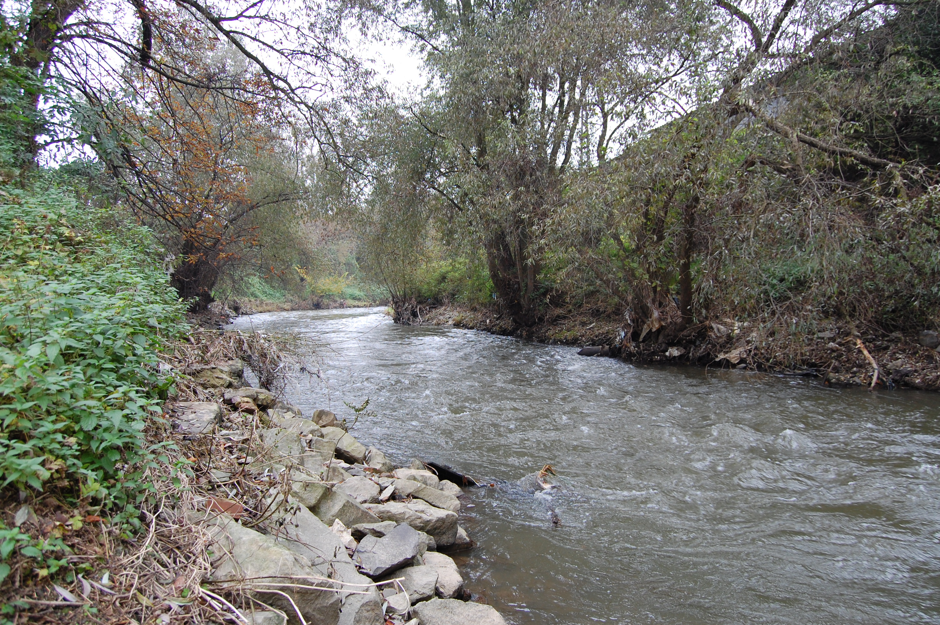 Bílina River